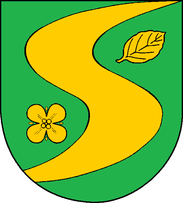 Coat of arms of the municipality Sören in Schleswig-Holstein, Germany.